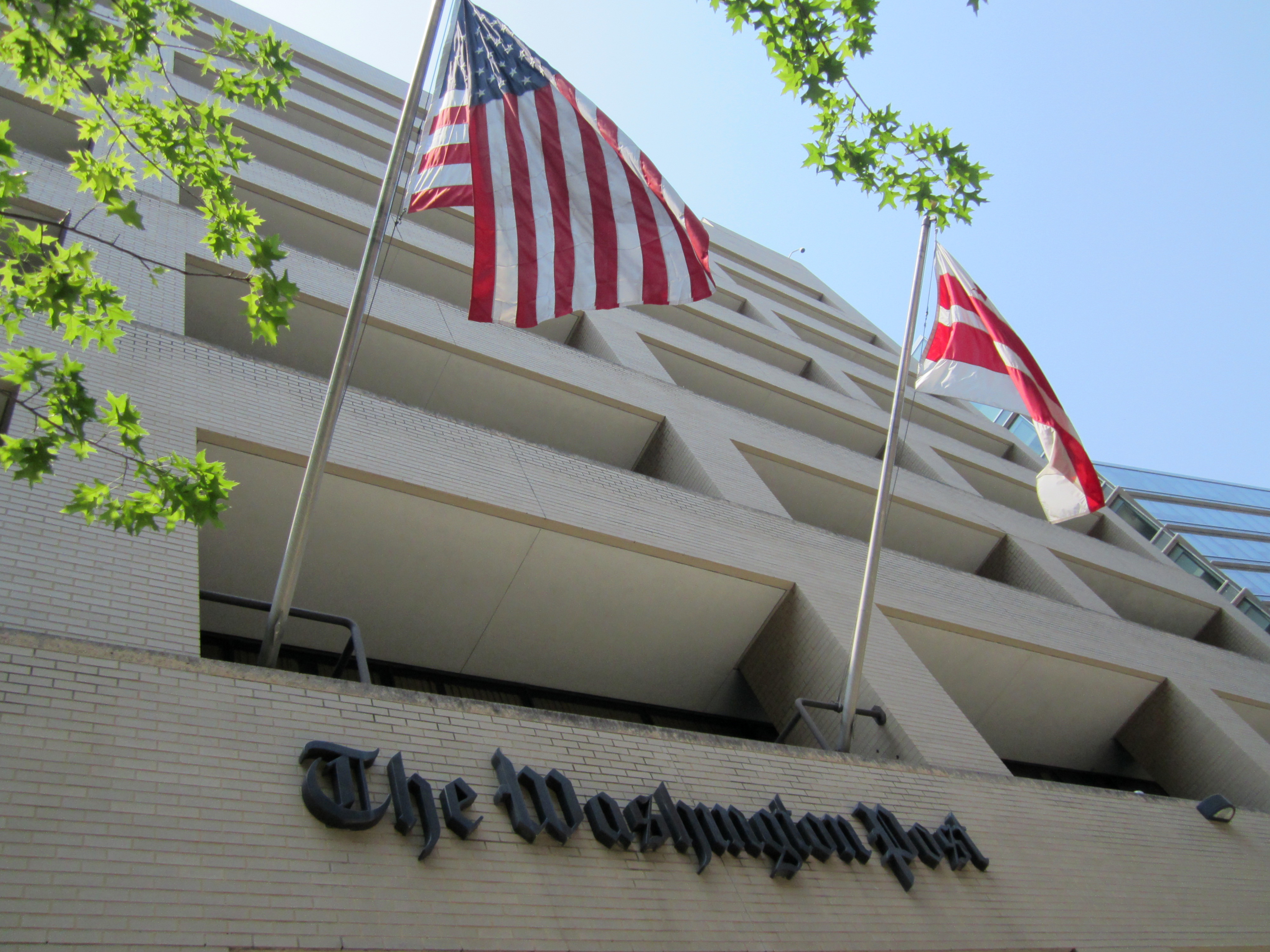 The Washington Post building in Washington, D.C.